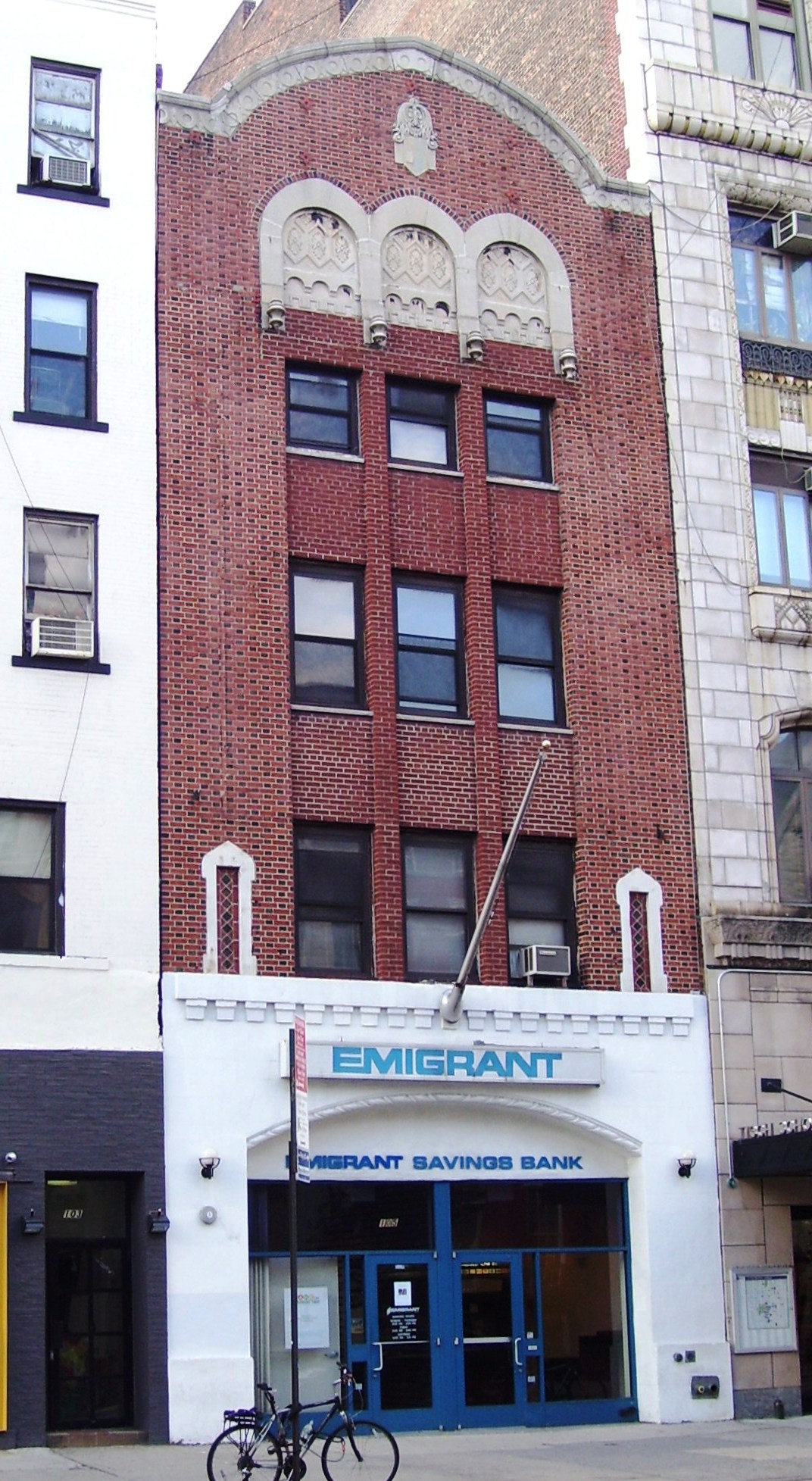 Originally a Yiddish theatre, then a movie house, Bill Graham opened the Fillmore East in this building on Second Avenue near 6th Street in the East Village in 1968 and closed it in 1971. It later became The Saint, a gay disco. The Emigrant Bank branch seen here occupies the theatre's old entrance lobby, the theatre inside was gutted and converted to apartments, Hudson East at 225 East 6th Street.